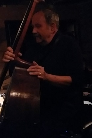 Michel Donato photographed in Montréal , Québec , Canada at Dièse Onze.